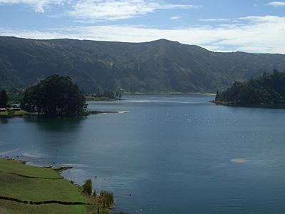 mount wenchi crater lake, Ethiopia